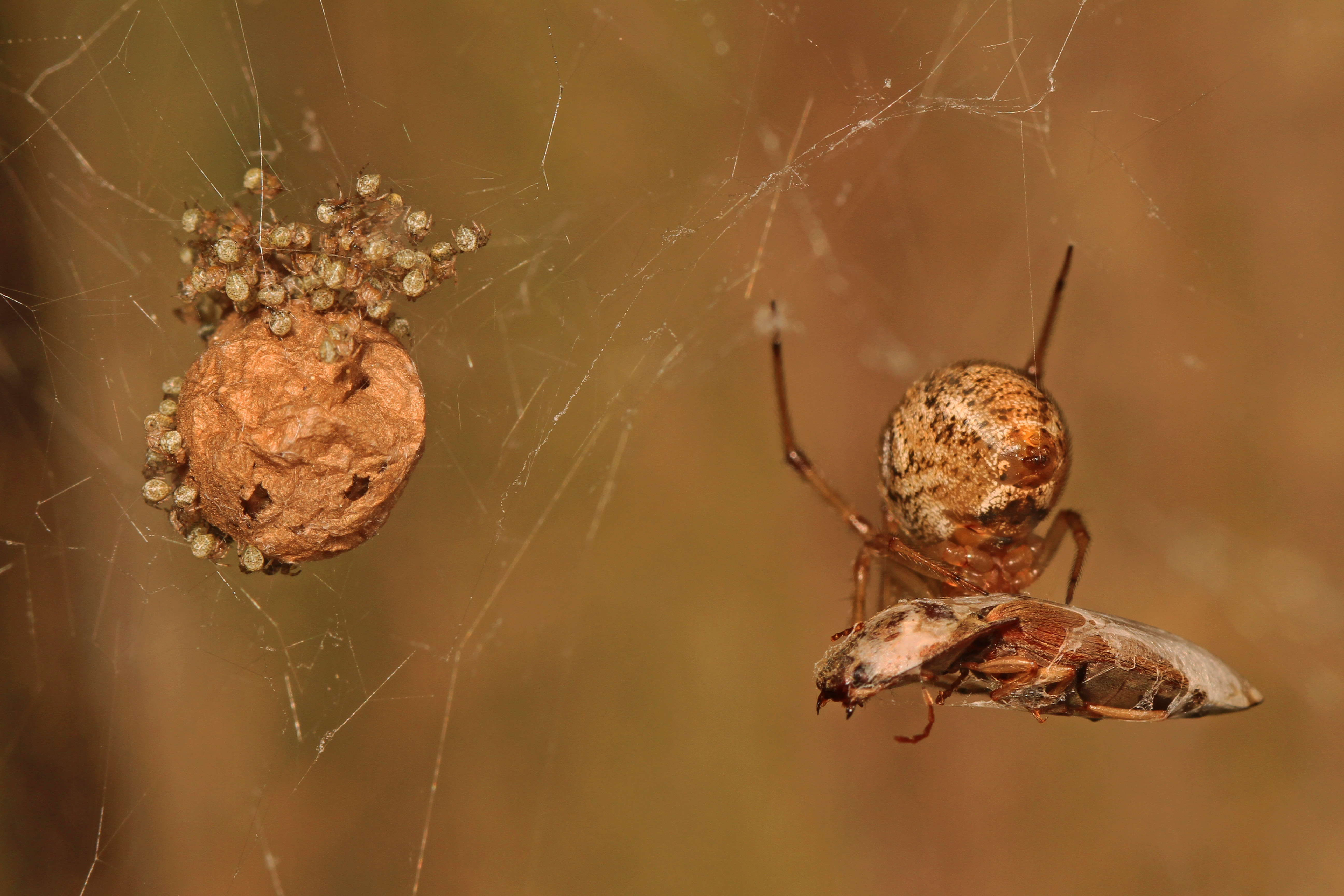 Common House Spider - Parasteatoda tepidariorum, Leesylvania State Park, Woodbridge, Virginia. There are a number of butts in this picture - the female on the right, her prey, and lots of tiny spider butts on the egg sac on the left.